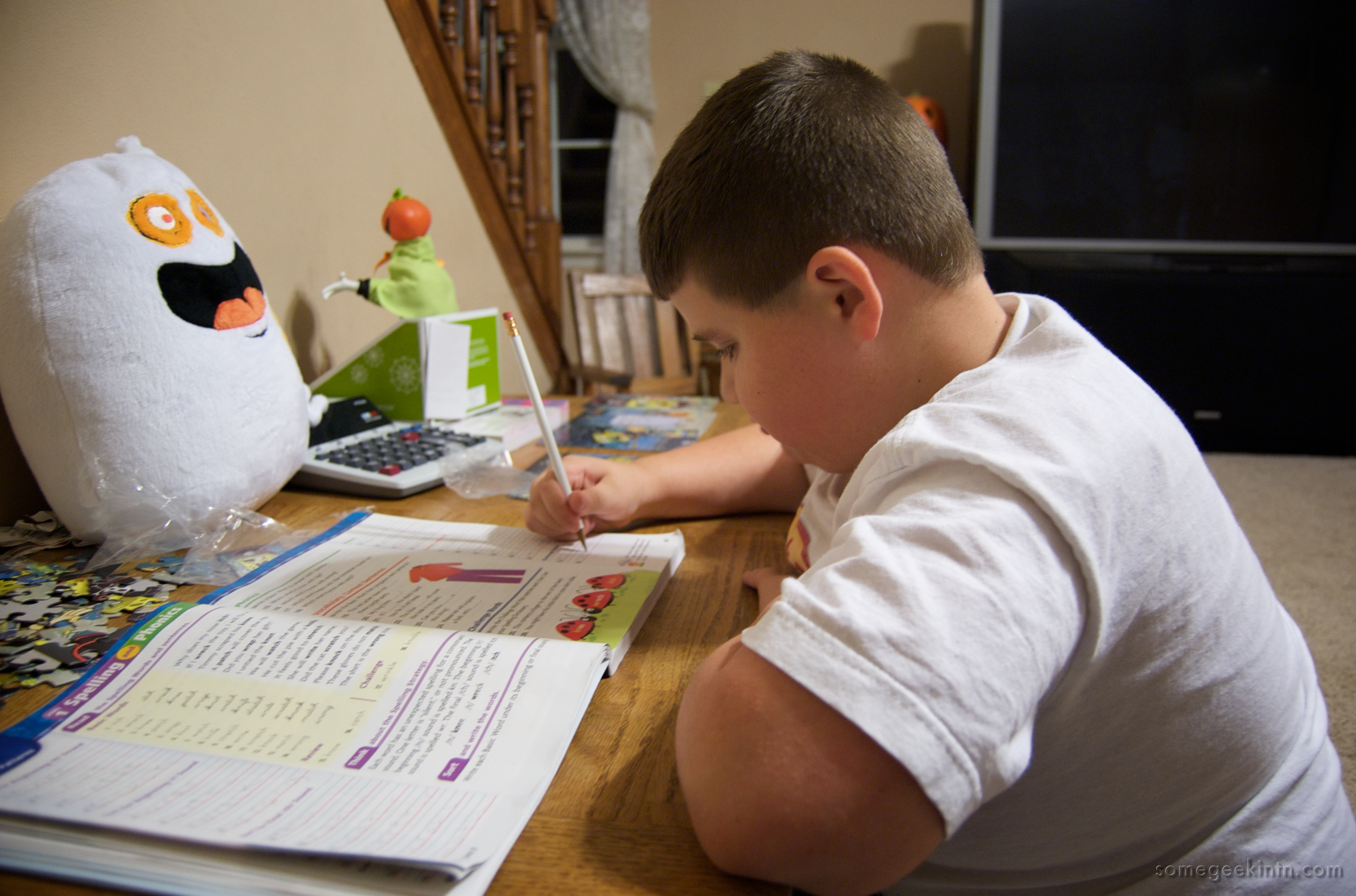 My son working on his science homework.